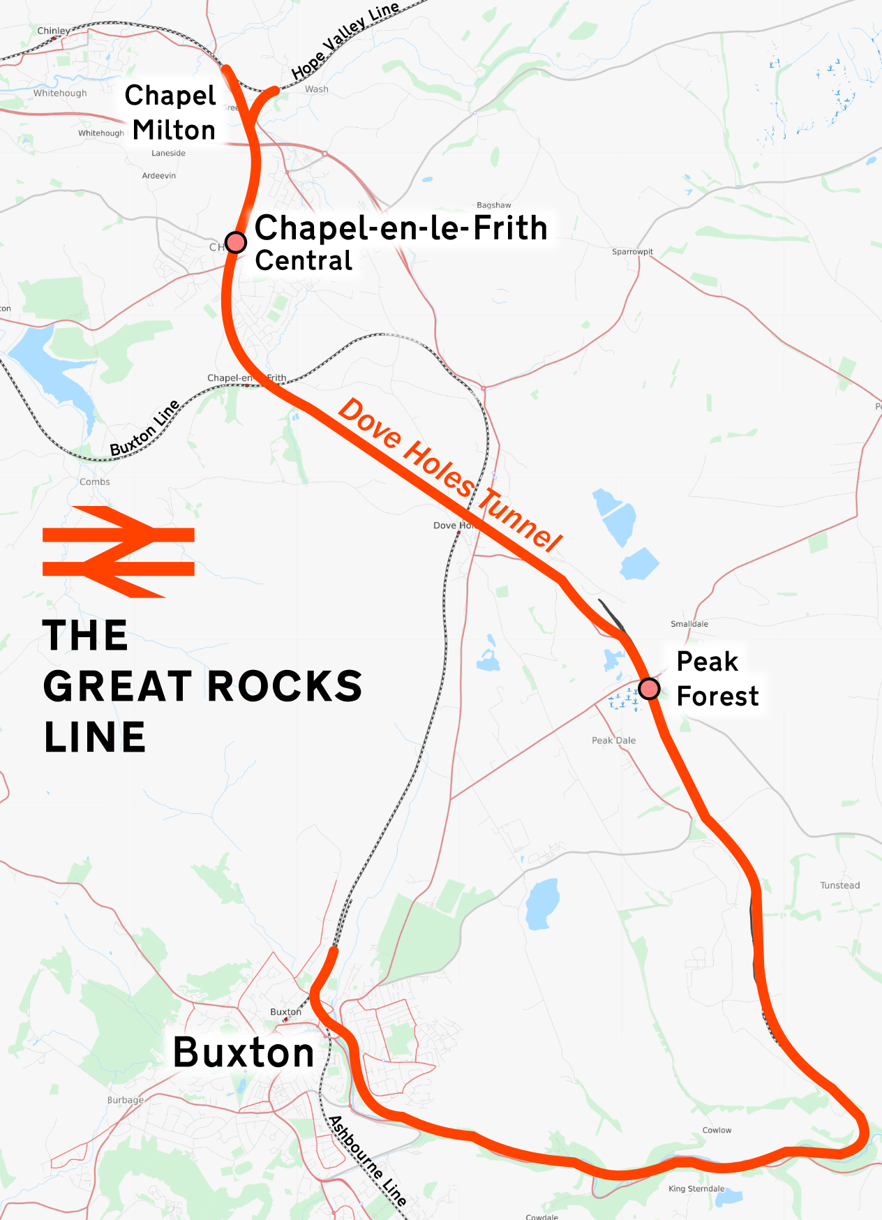 Map of the Great Rocks Line This map may be incomplete, and may contain errors. Don't rely solely on it for navigation.